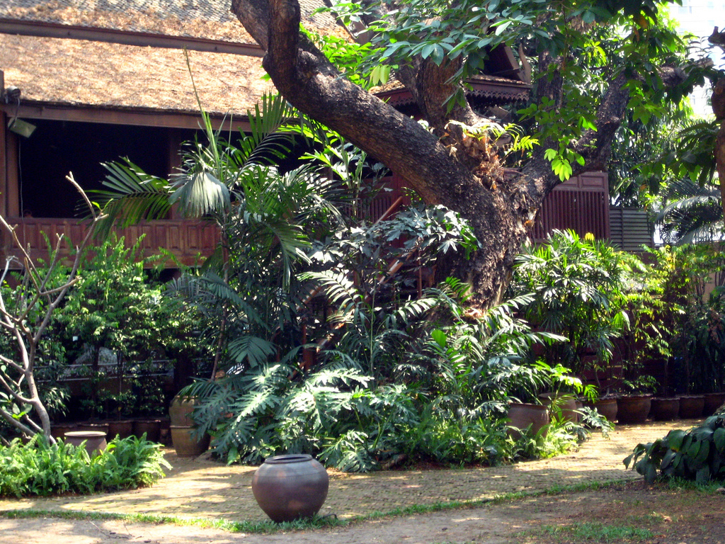 Garden at Kamthieng House, Location: Bangkok.